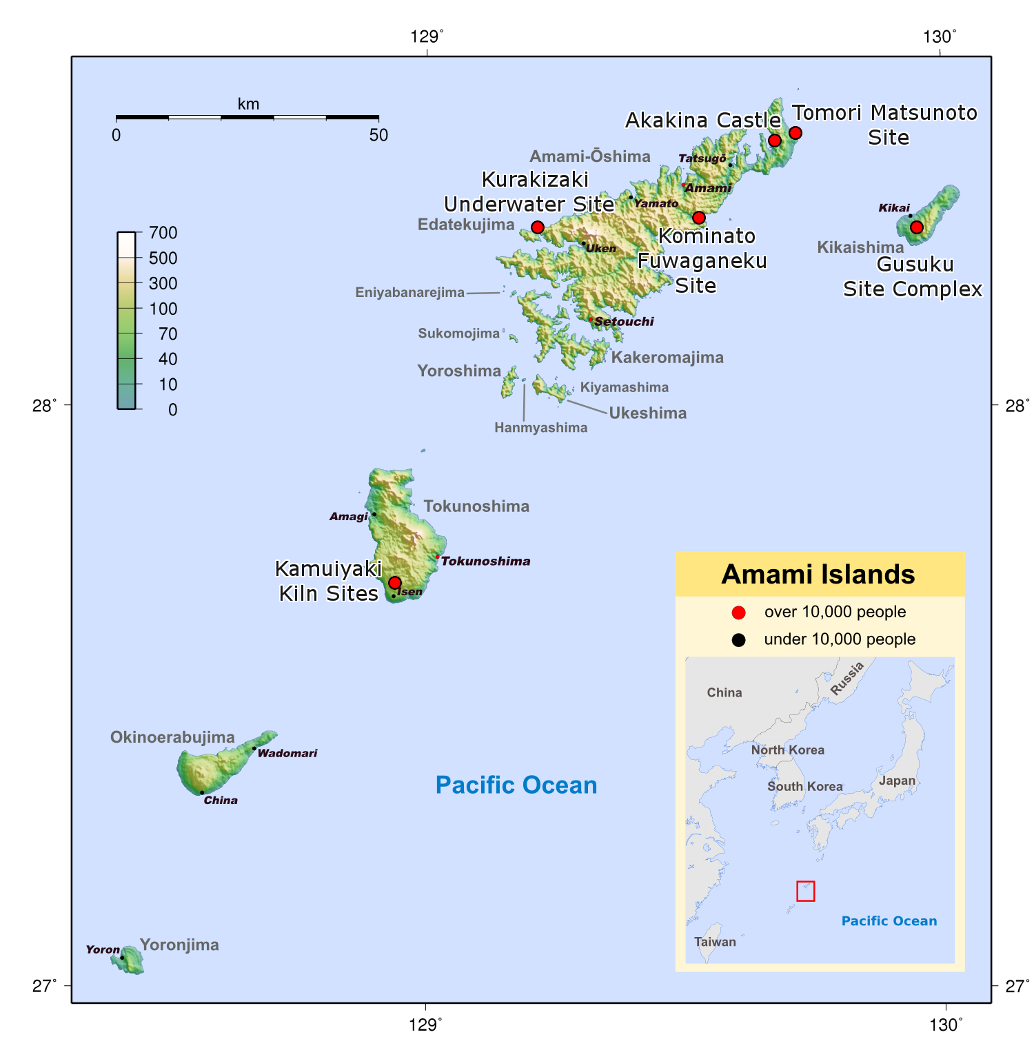 Major archaeological sites in the Amami Islands (English version)